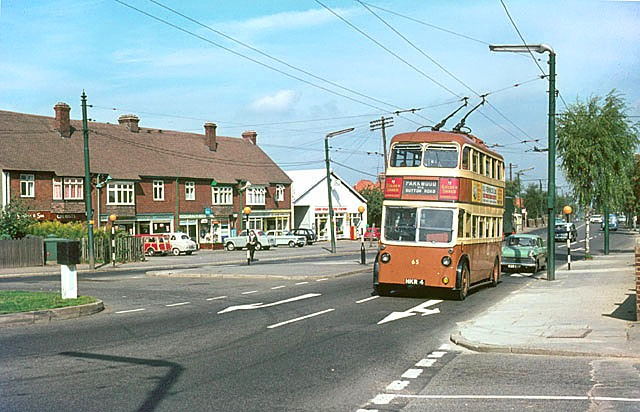 British Trolleybuses - Maidstone Maidstone was the smallest trolleybus system to last into the 60s. There was a single basic route from Barming in the west to Sutton Road in the South. This is a view at the Wheatsheaf junction on Sutton Road. The trolleybus is on its way to the Parkwood housing estate for which an extension to the route was built in the late 50s. Today the road layout is slightly altered - the roundabout has gone - but otherwise everything is much the same still. For a slide show of British Trolleybuses in the late 60s